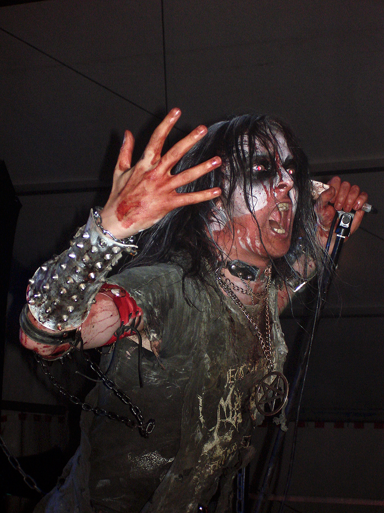 Watain live at Party.San Open Air 2006